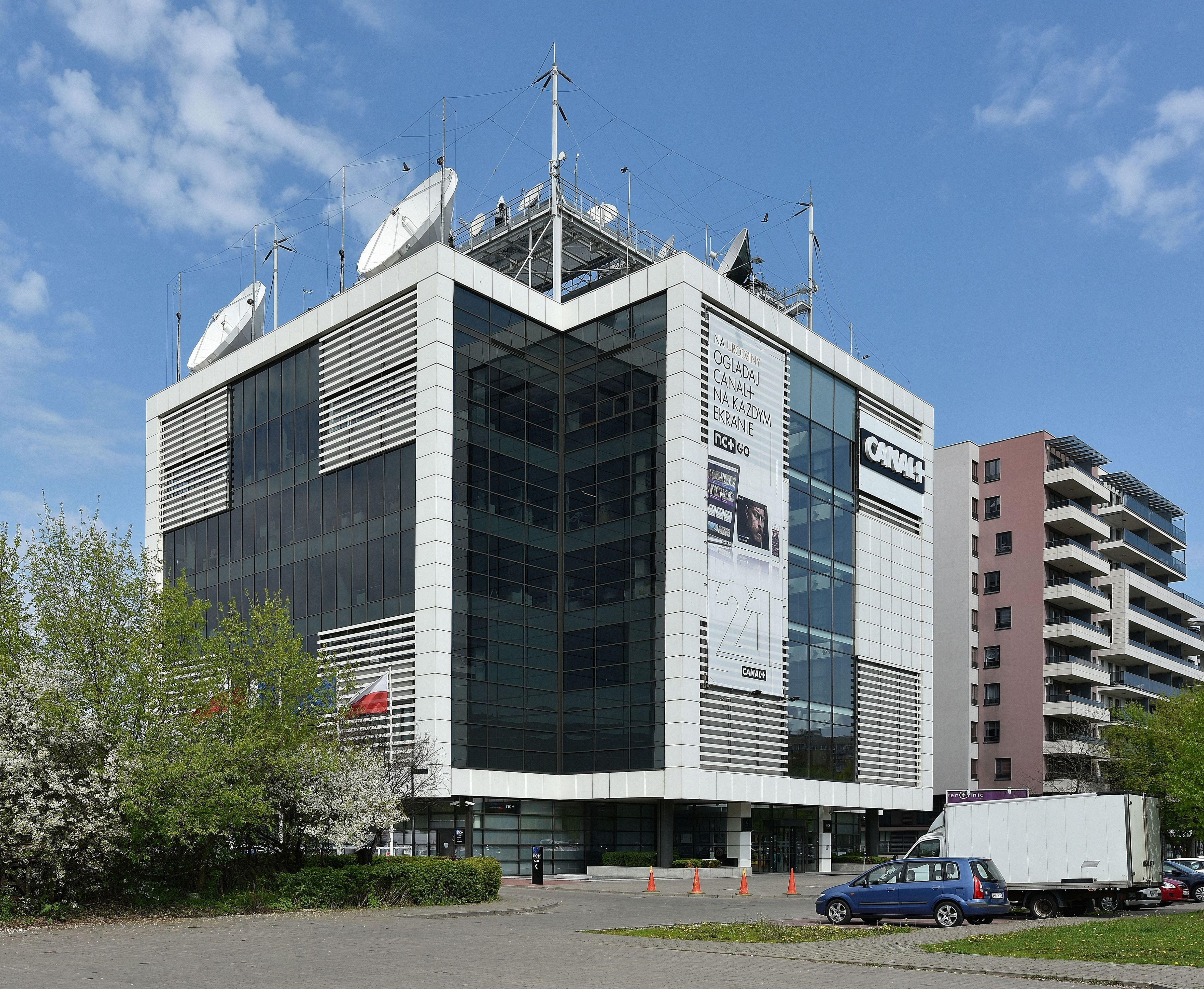 HQ of Canal+ at 9 Sikorski Avenue in Warsaw